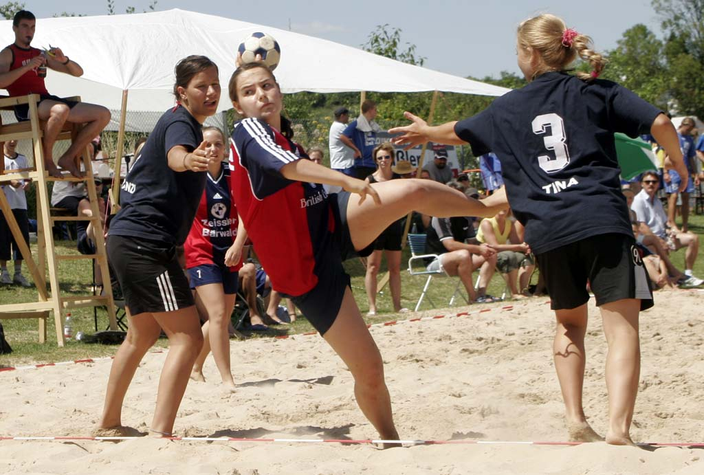 Goal shot in a beach handball game, performed by Sonja Kuebelbeck, on July 17th 2006 in Wenigumstadt (Germany).